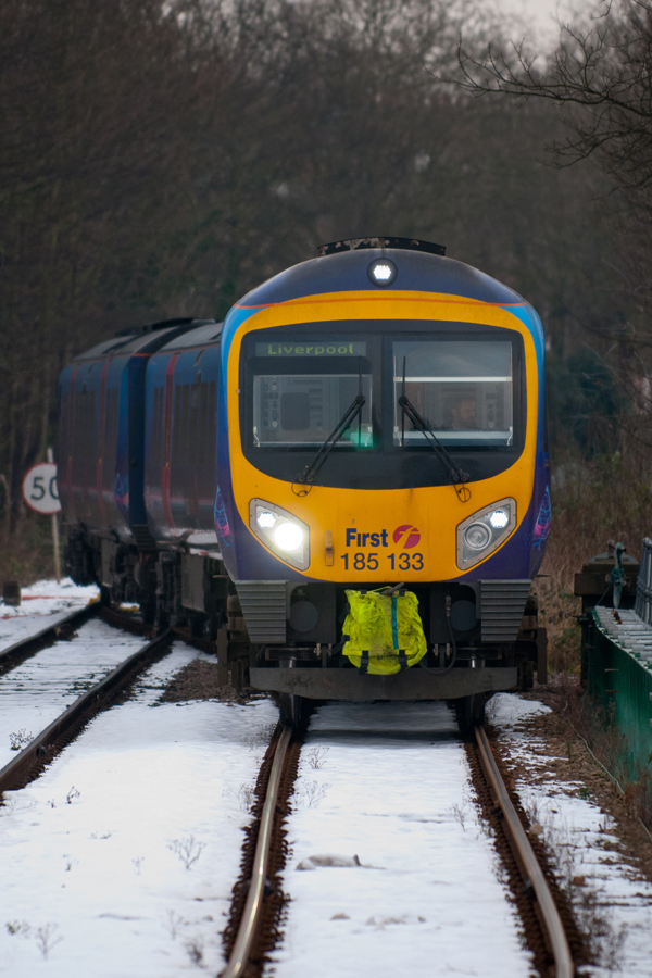 185133 is seen approaching York station with a Trans-Pennine service to Liverpool Lime Street from Scarborough on the 25 January 2013. It has just left the crossover and is travelling over Scarborough Bridge over the River Ouse.